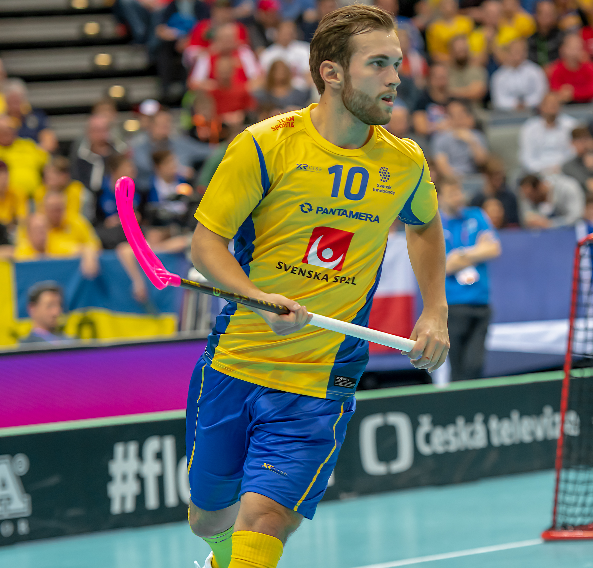 WFC2018 Sweden vs Switzerland